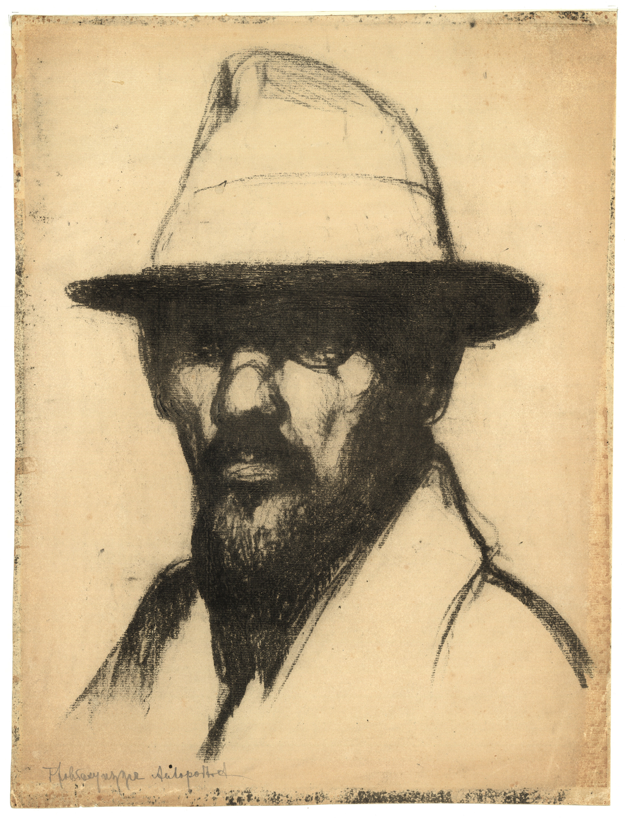 Self-portrait of a Polish painter and printmaker.